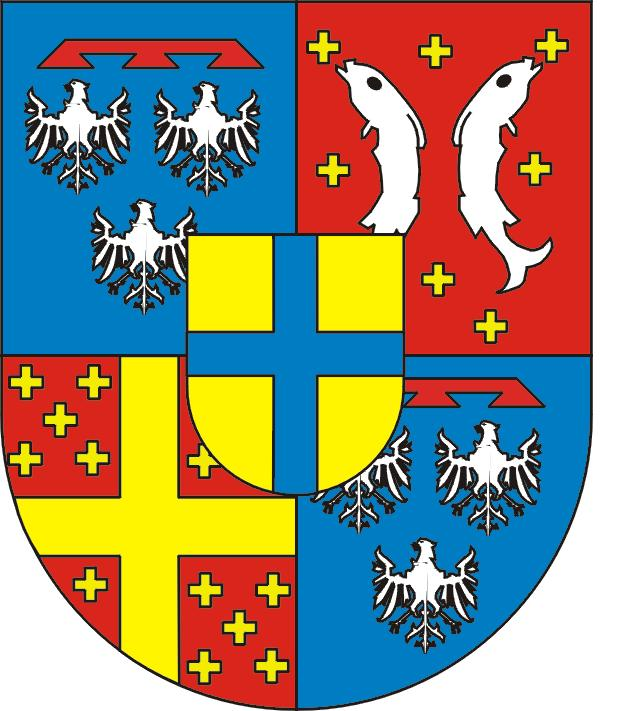 Coat of arms county of Leiningen-Rixingen